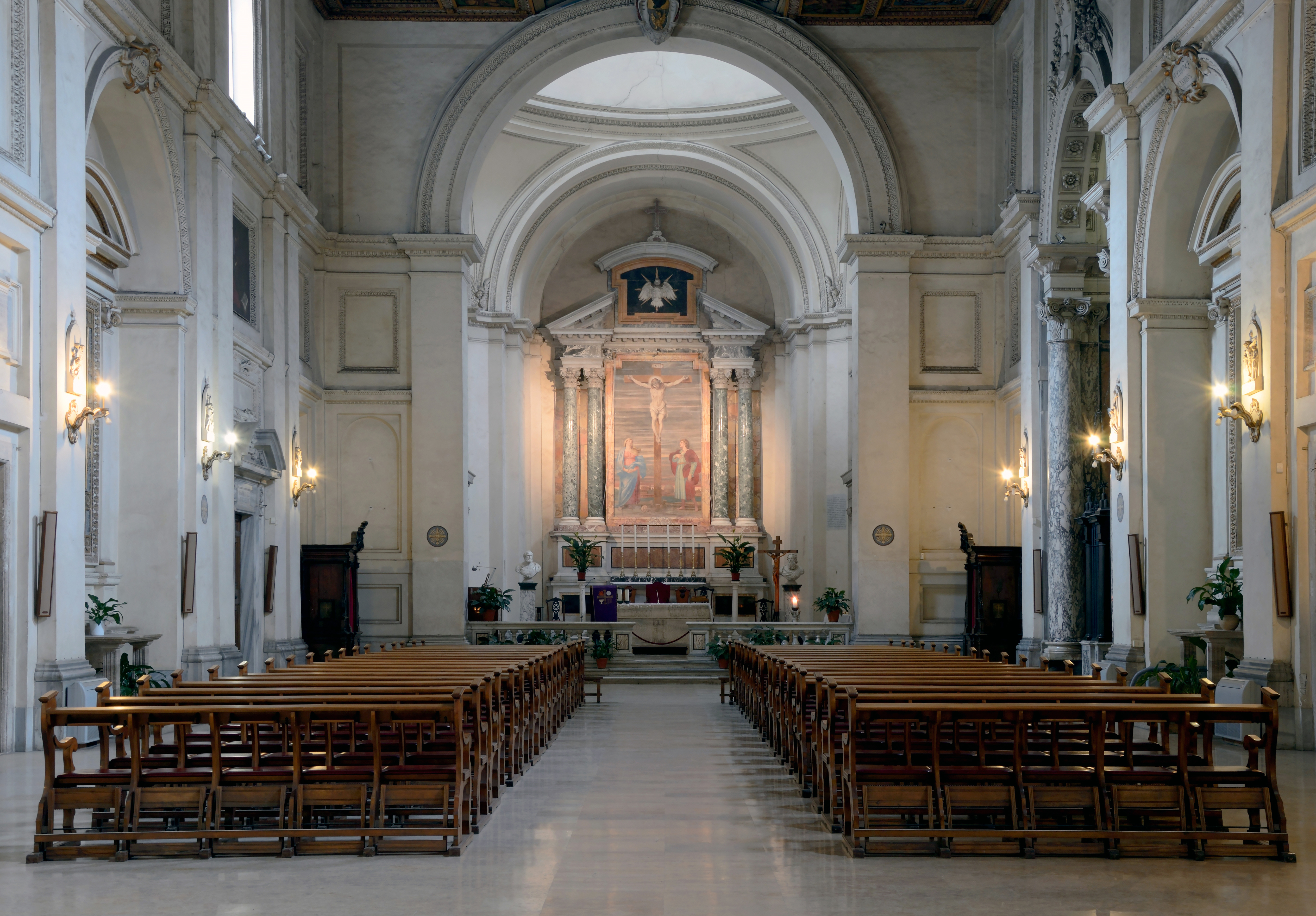 Saint Sebastian outside the walls - Intern